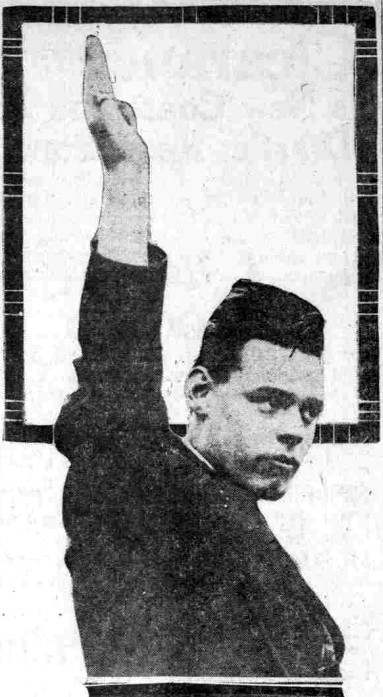 Organizer of the National Unemployed Workers' Movement Wal Hannington from the December 26, 1922 edition of the Morning Oregonian.